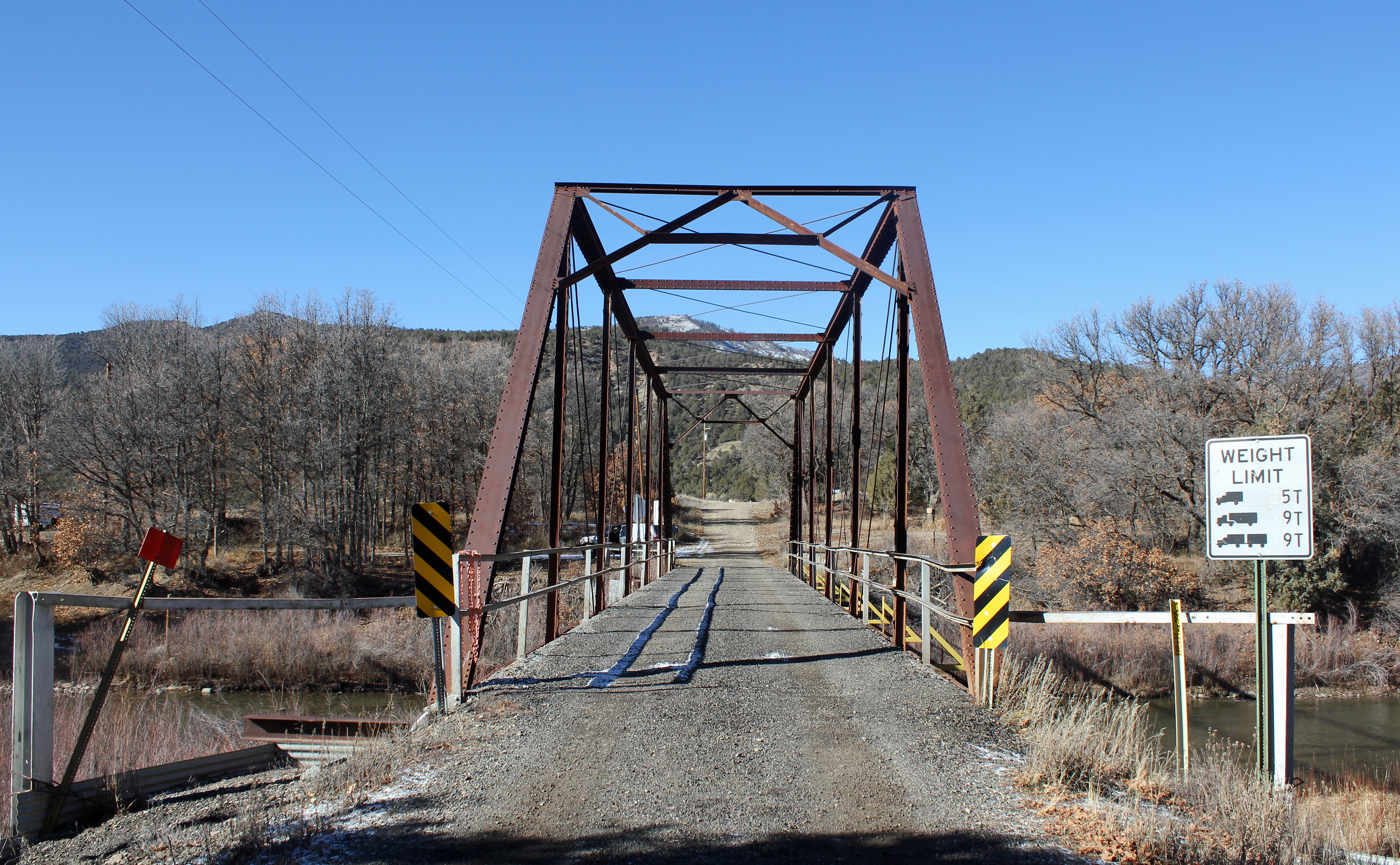 The Labo Del Rio Bridge, located on Navajo Road in Archuleta County, Colorado, north of Arboles. The bridge goes over the Piedra River and is listed on the National Register of Historic Places.